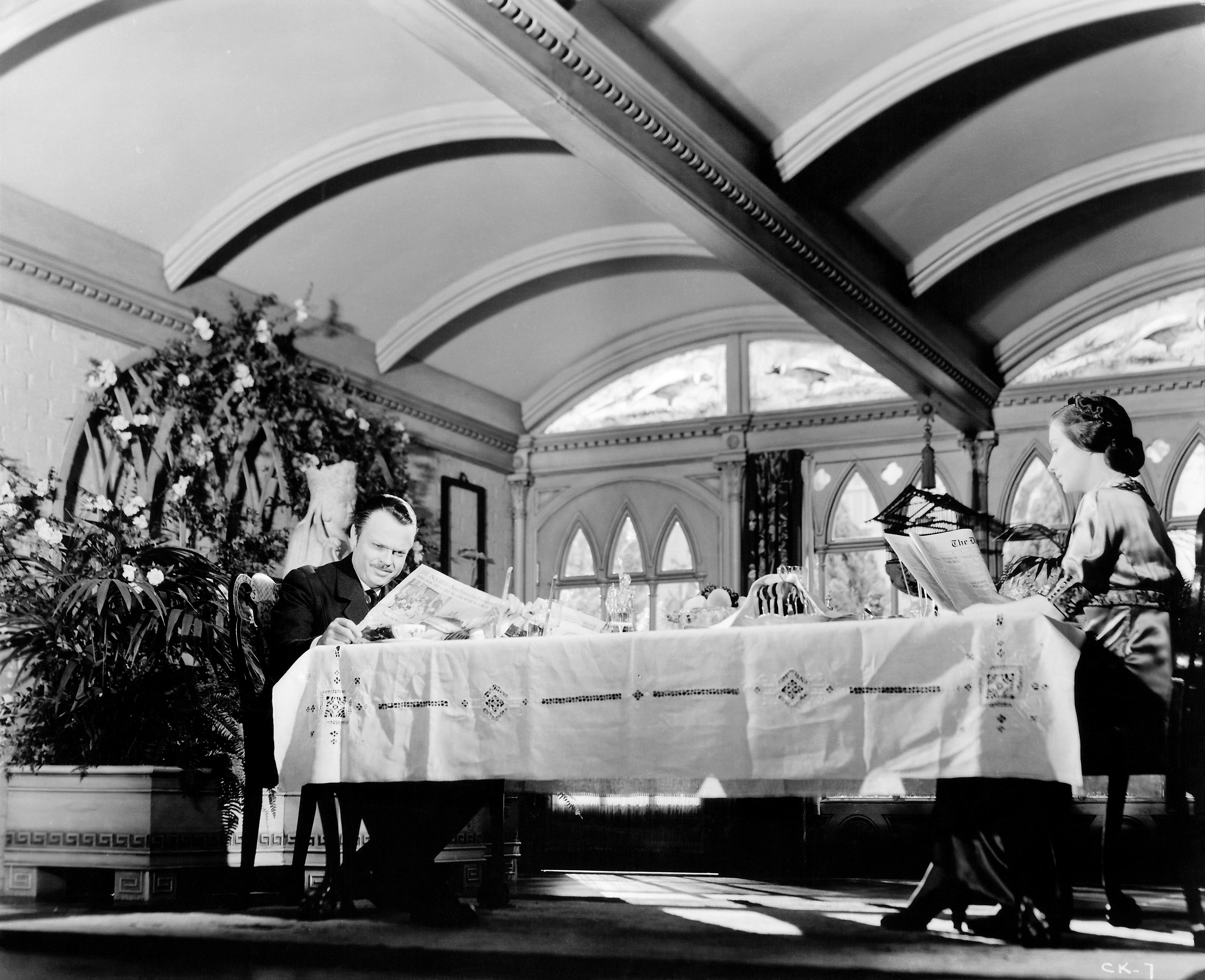 Promotional still for the 1941 film, Citizen Kane Image is marked CK-7 at lower right